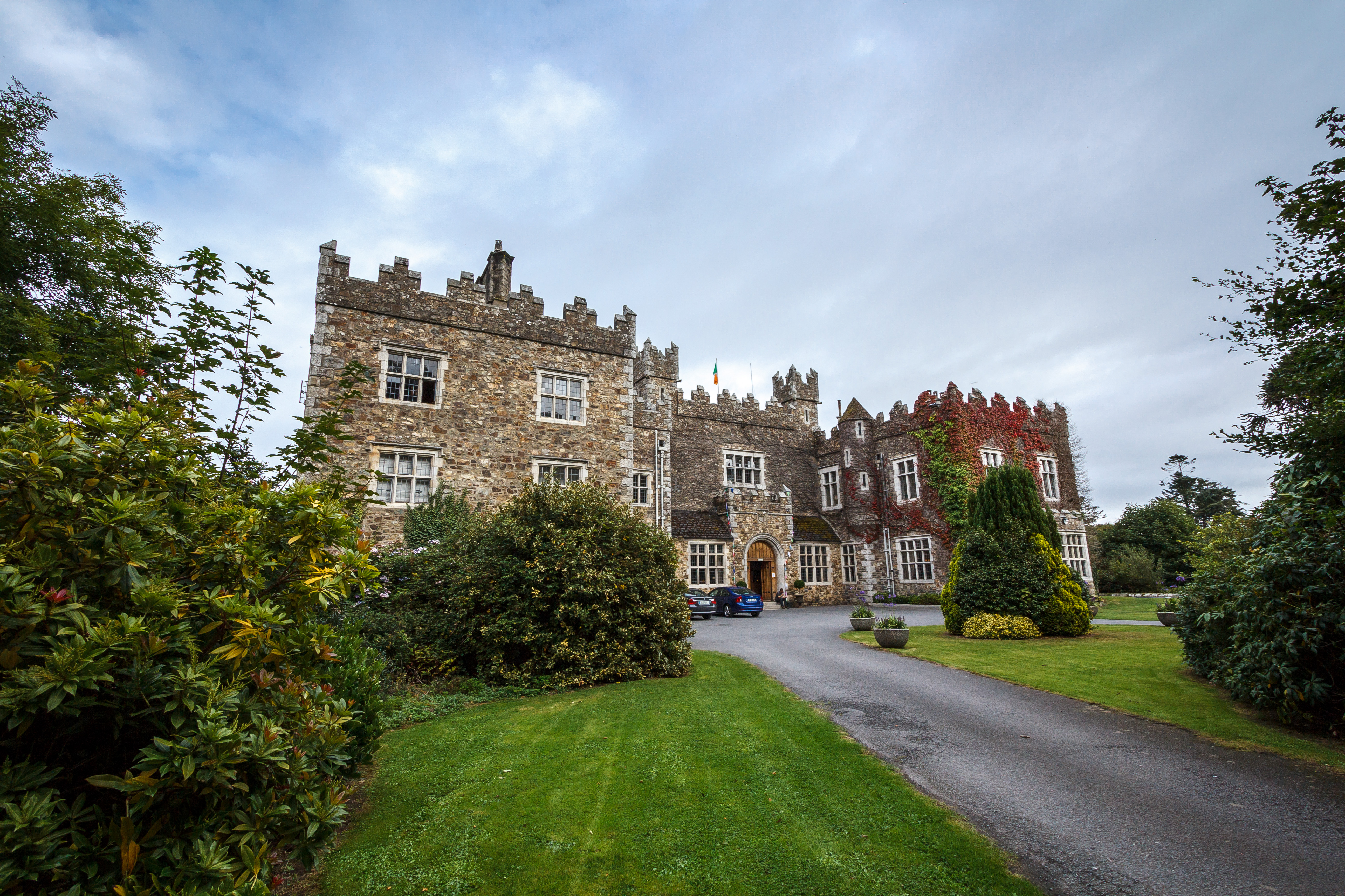 Waterford Castle, Little Island, Waterford City, Ireland